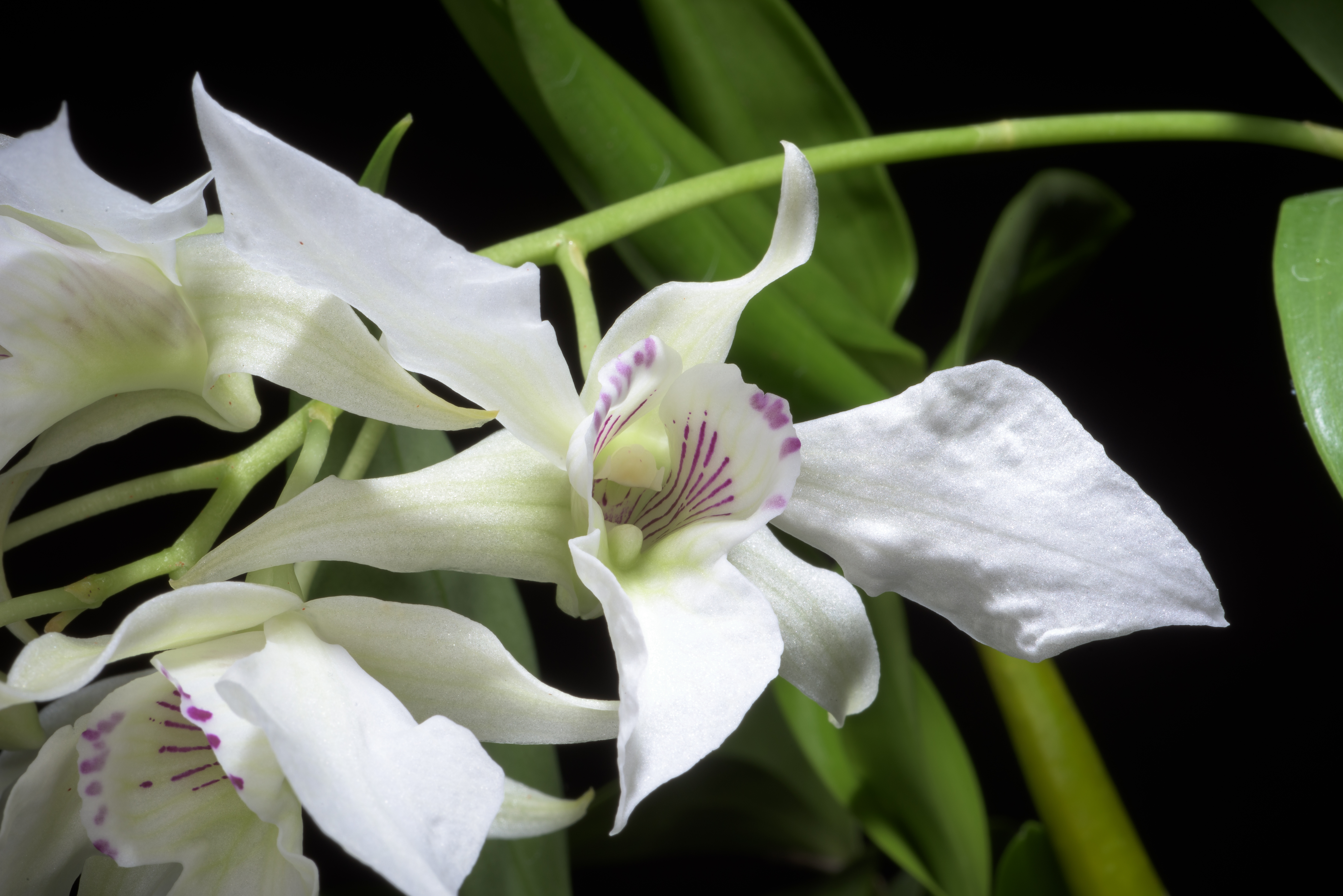 SECTION Latouria Distribution: New Guinea to Solomon Is. 43 BIS NWG SOL Found in Asia-Tropical Papuasia Bismarck Archipelago, New Guinea, Solomon Is.